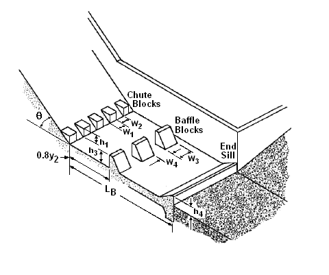 A diagram of a U.S. Bureau of Reclamation Type III stilling basin, as documented in a U.S. Federal Highway Administration publication.